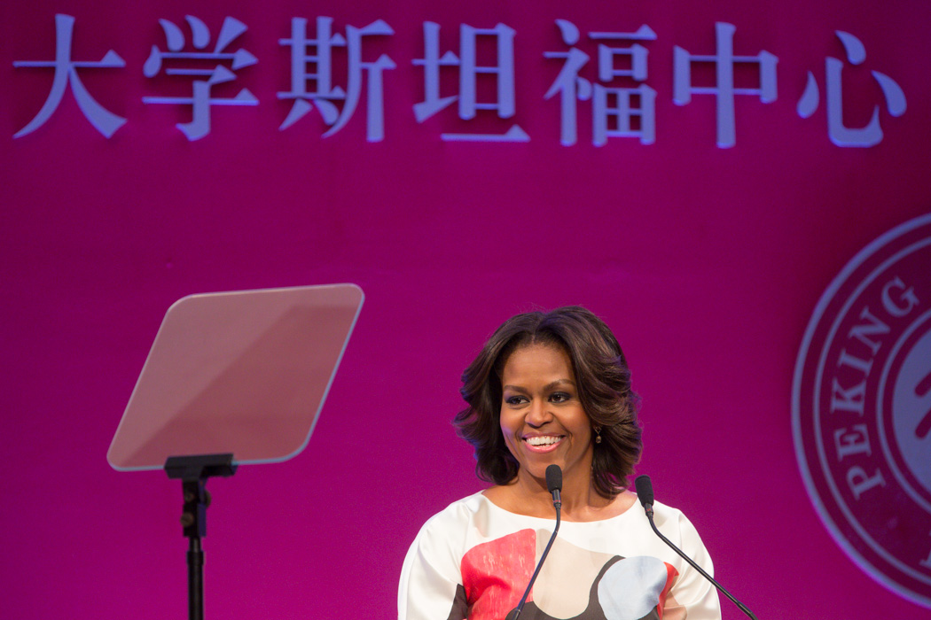 First Lady Michelle Obama visits delivers remarks on education at Peking University in Beijing, China. March 22, 2014.